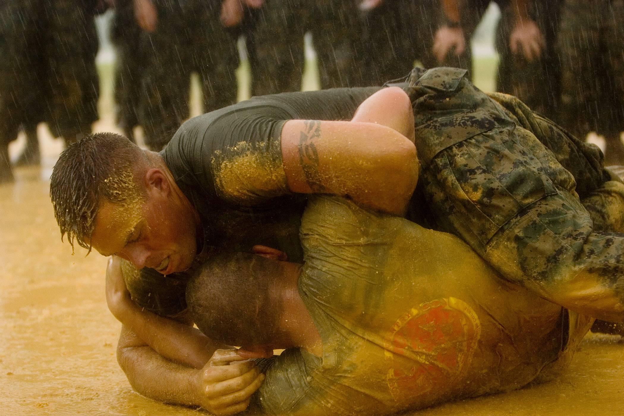 Marines practice Marine Corps Martial Arts Program groundfighting